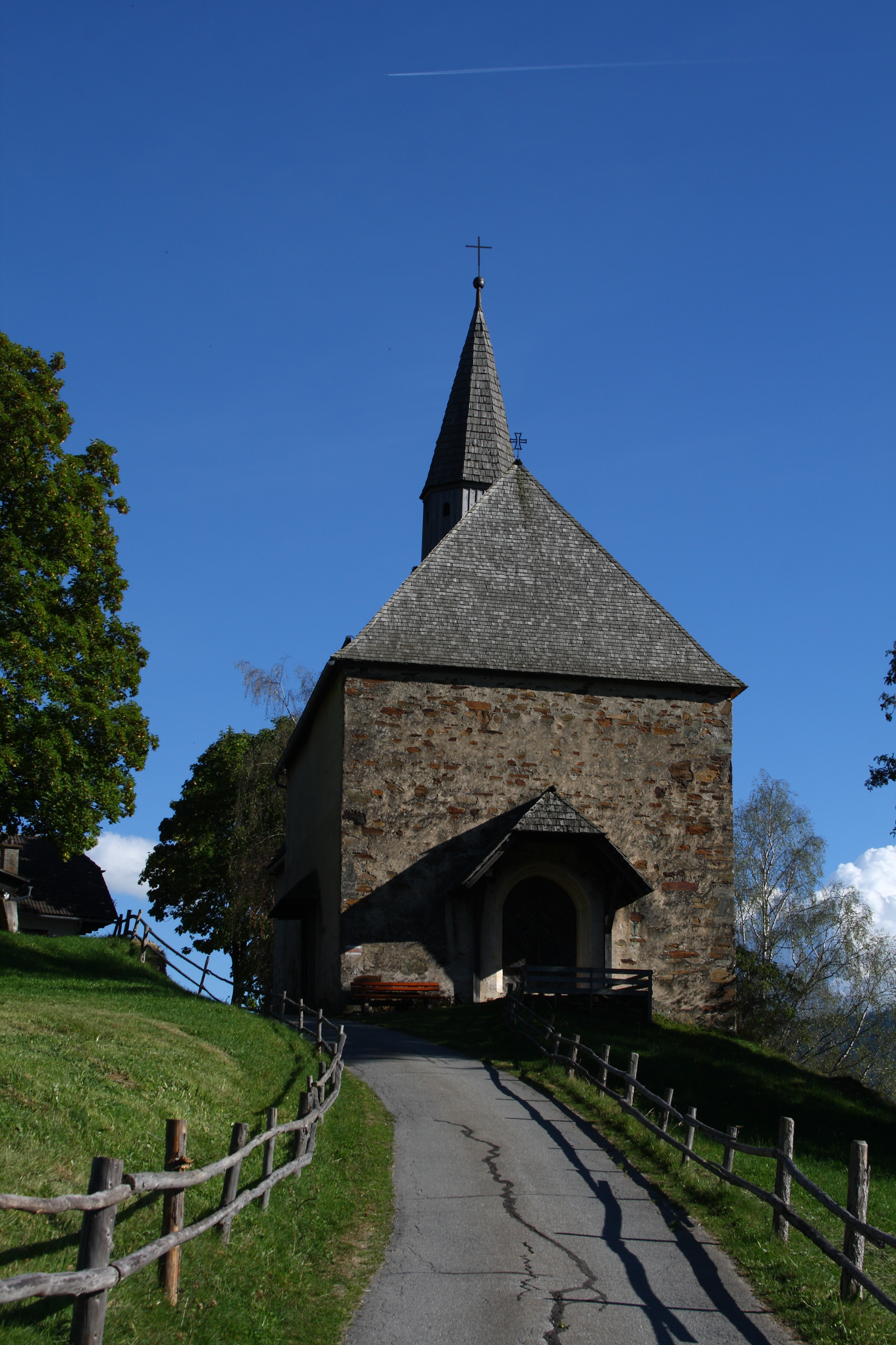 Ulrichskirche, Krakauhintermühlen, Lungau, Austria